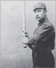 Oyster Burns pictured in 1888